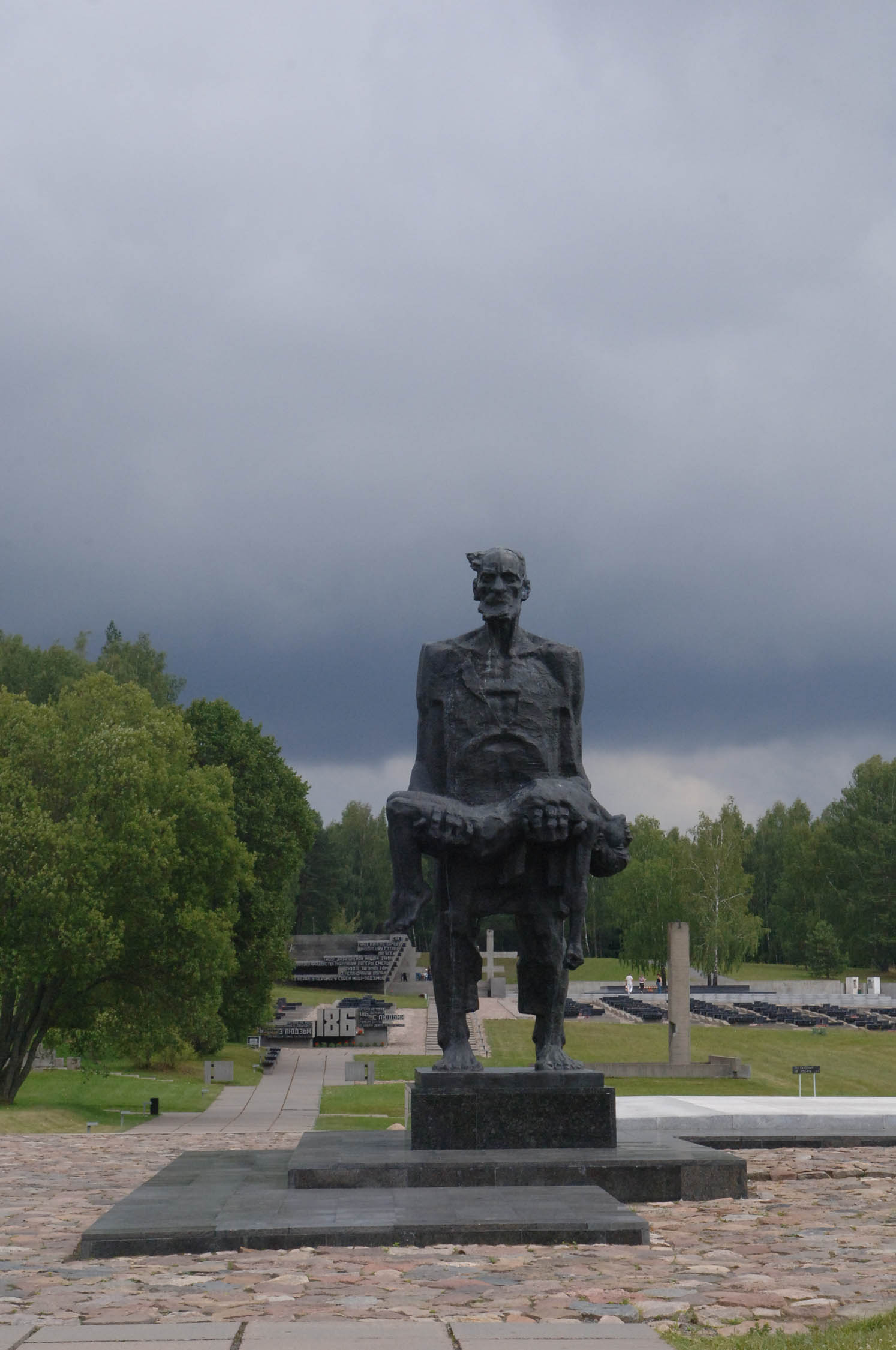 60 KM NORTH OF MINSK; TOWN WAS BURNT TO THE GROUND IN 1943 AS A REPRISAL BY THE GERMANS. THE SCULPTURE IS THAT OF YUSIF KAMINSKY, THE ONLY SURVIVOR. THE GRAVEYARD OF VILLAGES COMMEMORATES THE 185 OTHER BELARUSSIAN VILLAGES ANNIHILATED AND THE CONCRETE POSTS SYMBOLIZE THE TREES OF LIFE COMMEMORATING 433 OTHER VILLAGES DESTROYED. THE MEMORIAL WALL LISTS NAMES OF CONCENTRATION CAMP VICTIMS.